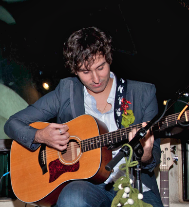 Adam Messinger on guitar at The Messengers Musical Toy Drive, Dec 2011